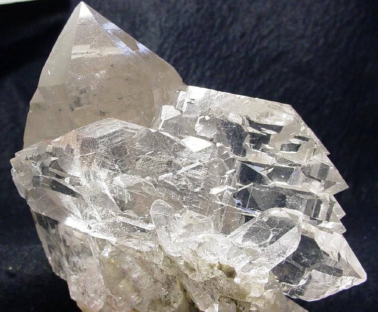 Quartz Locality: Grischun (Grisons; Graubünden), Switzerland (Locality at ) WOW! This is a bright and glassy specimen of incredibly clear quartz, featuring an unusually clear 11.5 x 6 x 3 cm gwindel quartz cluster perched astride a single large prismatic quartz point. At the base of that quartz crystal, another prismatic quartz emerges and points off to the left. Finally, a large diagonal quartz crystal extends down between the gwindel and this base crystal, solidly connecting and strengthening the whole piece. The gwindel shows the classic "twisting" of a gwindel quartz in person and is quite easily visible. The quality in terms of form and clarity is nothing short of amazing. This huge specimen has only a few trivial dings that do not detract and is complete save for a contact on the back face of the prism quartz and a small cleave out of the tip. The gwindel itself is complete all around and again, MUCH more dramatic in person. This is definitely one of the finest large Swiss gwindels that I have laid hands on, though admittedly its a bit untraditional because of the clarity and the nice 3-dimensional display. In fact, to display this heavy specimen properly and safely, one really should have a base made for it, which I would provide free of charge if the customer desires. 17 x 13 x 8 cm